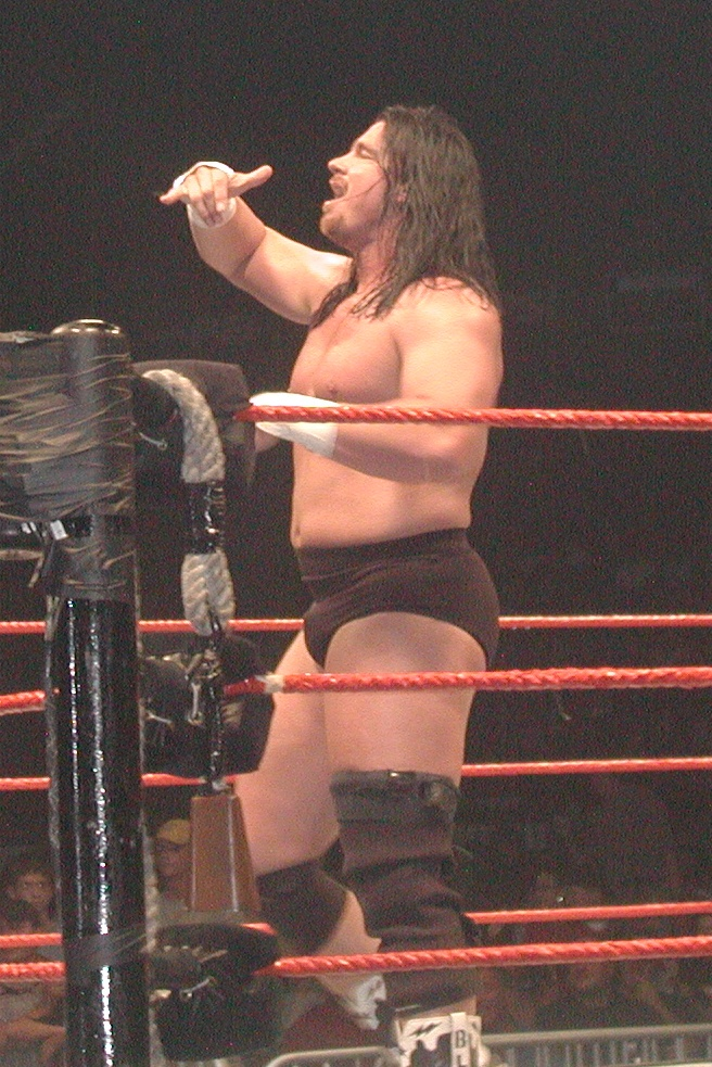 John Layfield at a WWE Raw live event. Allstate Arena, Rosemont, IL, September 1en:2002. Taken by me.